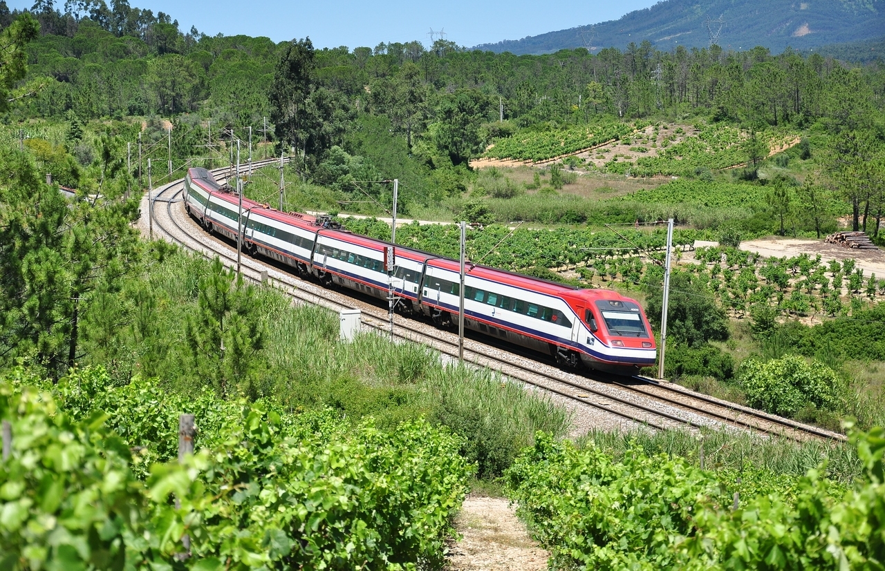 Alfa pendular Braga - Lisboa Santa Apolonia passing Marmeleira. It is always a pleasure to travel on this train. These units have Wi-Fi installed.